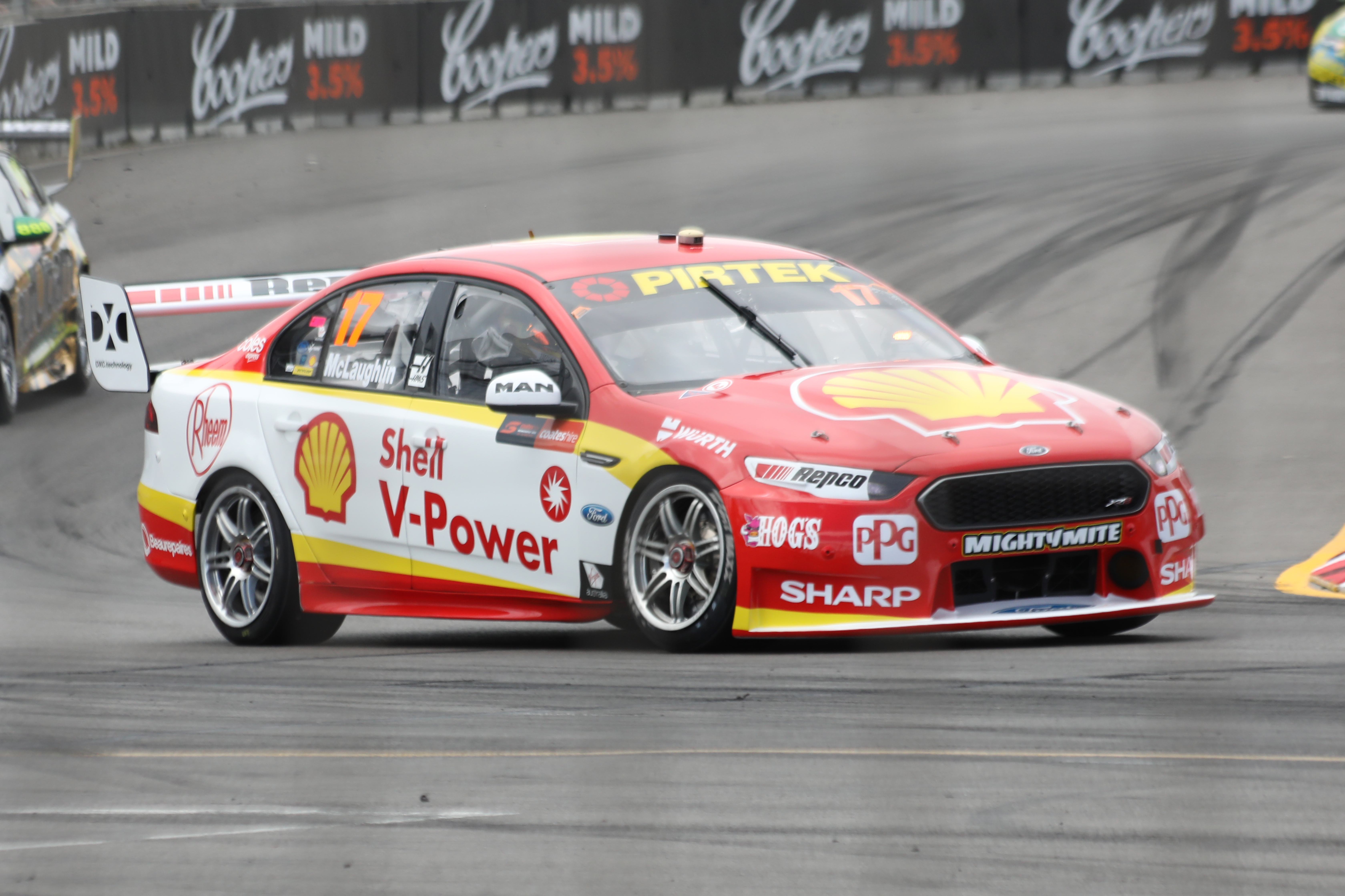 Scott McLaughlin during Race 31 qualifying at the 2018 Coates Hire Newcastle 500.